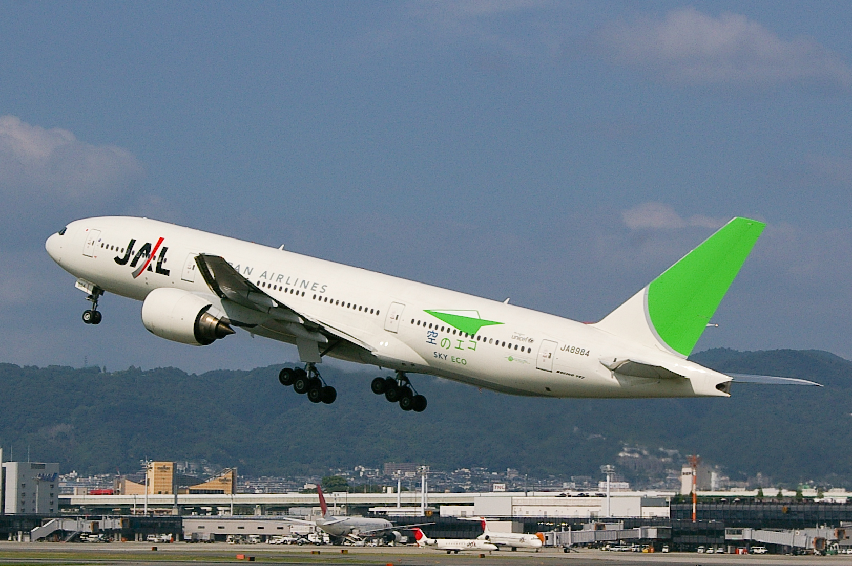 Photograph of Japan Airlines' Boeing 777-200 (JA8984), taking off from Osaka International Airport, with "JAL Eco Jet" special livery, taken from Itami Sky Park in Itami, Hyogo Prefecture, Japan.